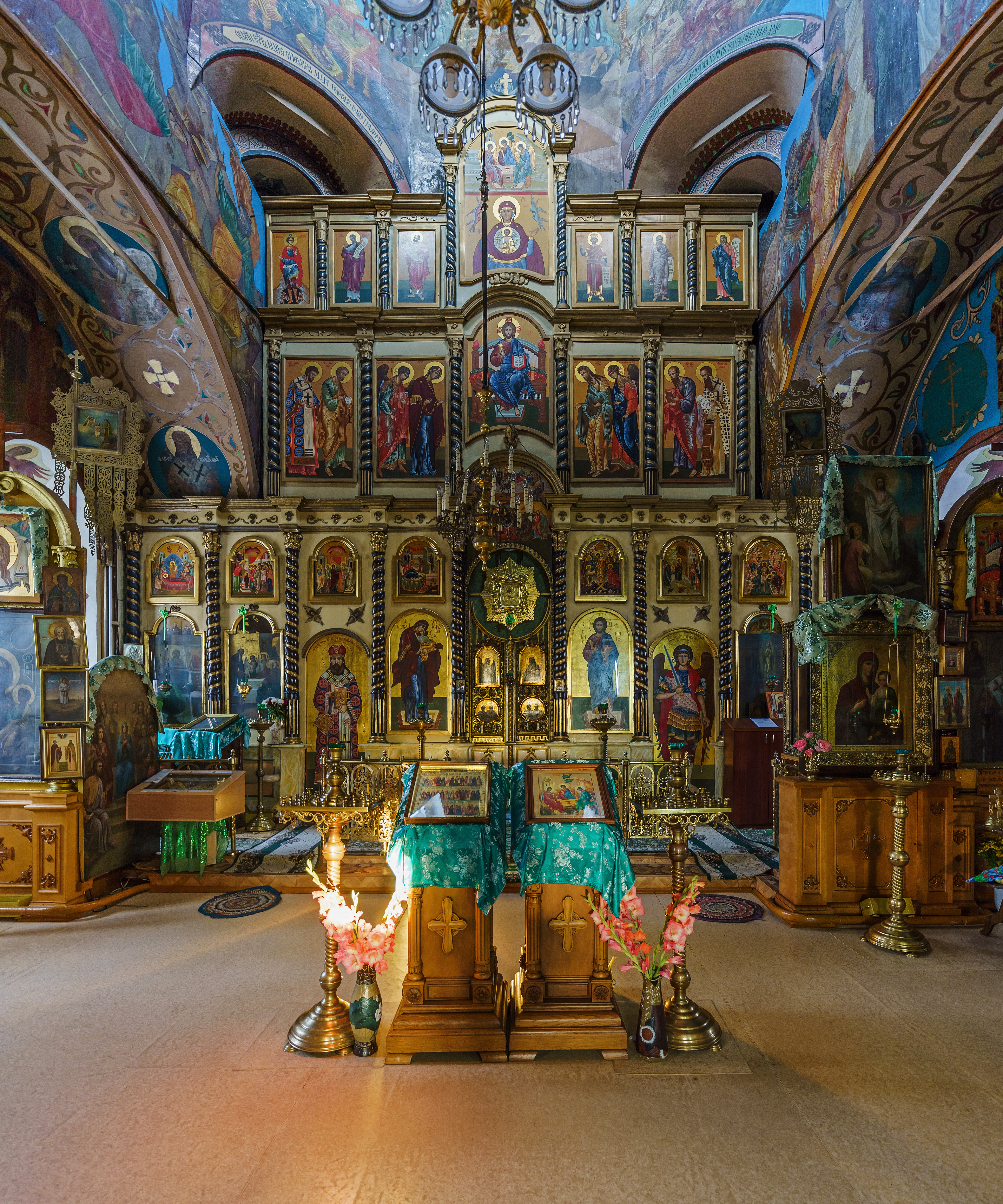 Interior of Trinity Church in Bologoe, Tver Oblast, Russia.